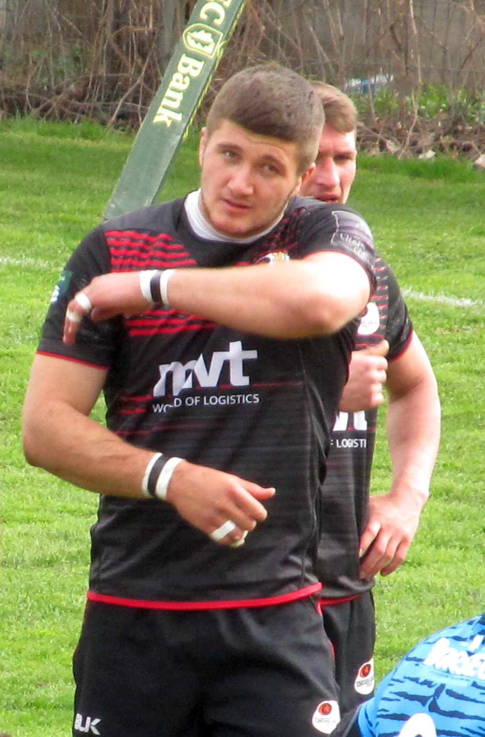 Romanian international rugby union football player Vlad Neculau during the 2019 Cupa României Final match between his team, Timișoara Saracens, and rivals CSM București in March 2019